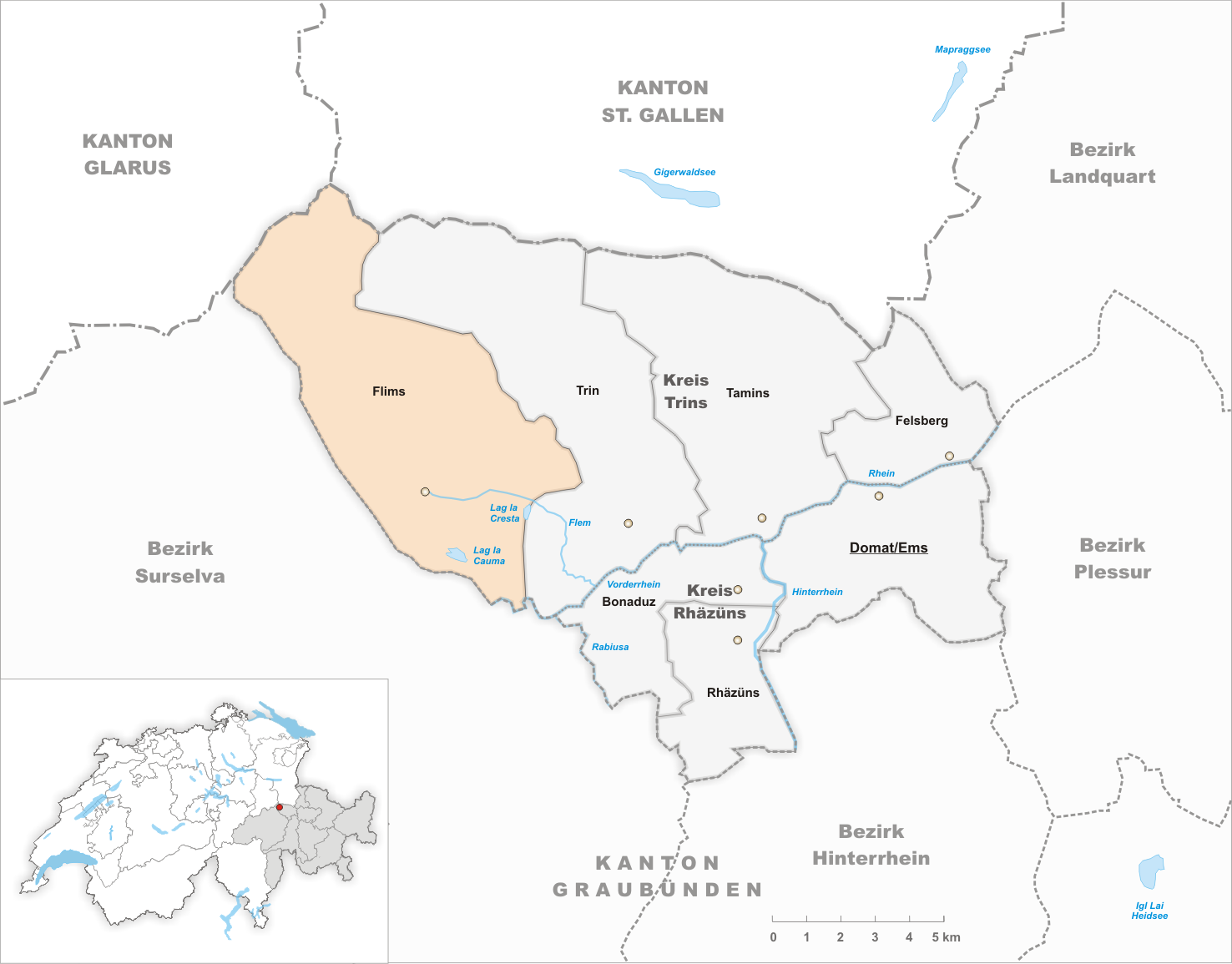 Municipality Flims